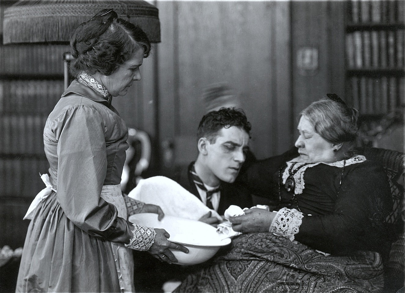 Her Official Fathers is an American silent film released in 1917 and co-directed by Elmer Clifton and Joseph Henabery. Shown are Jennie Lee (1848 – 1925), Bessie Buskirk (1892 – 1952) as the maid, and Frank Bennett (1890 – 1957)